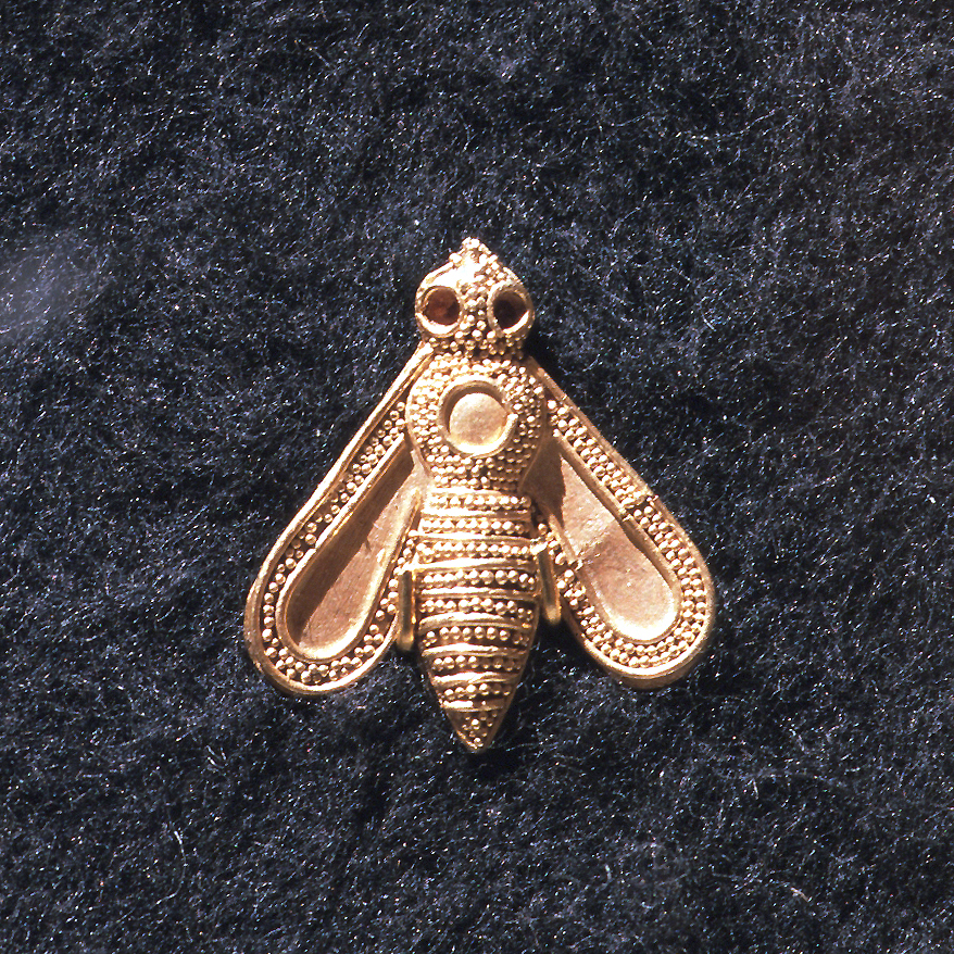 Minoan craft, golden bee